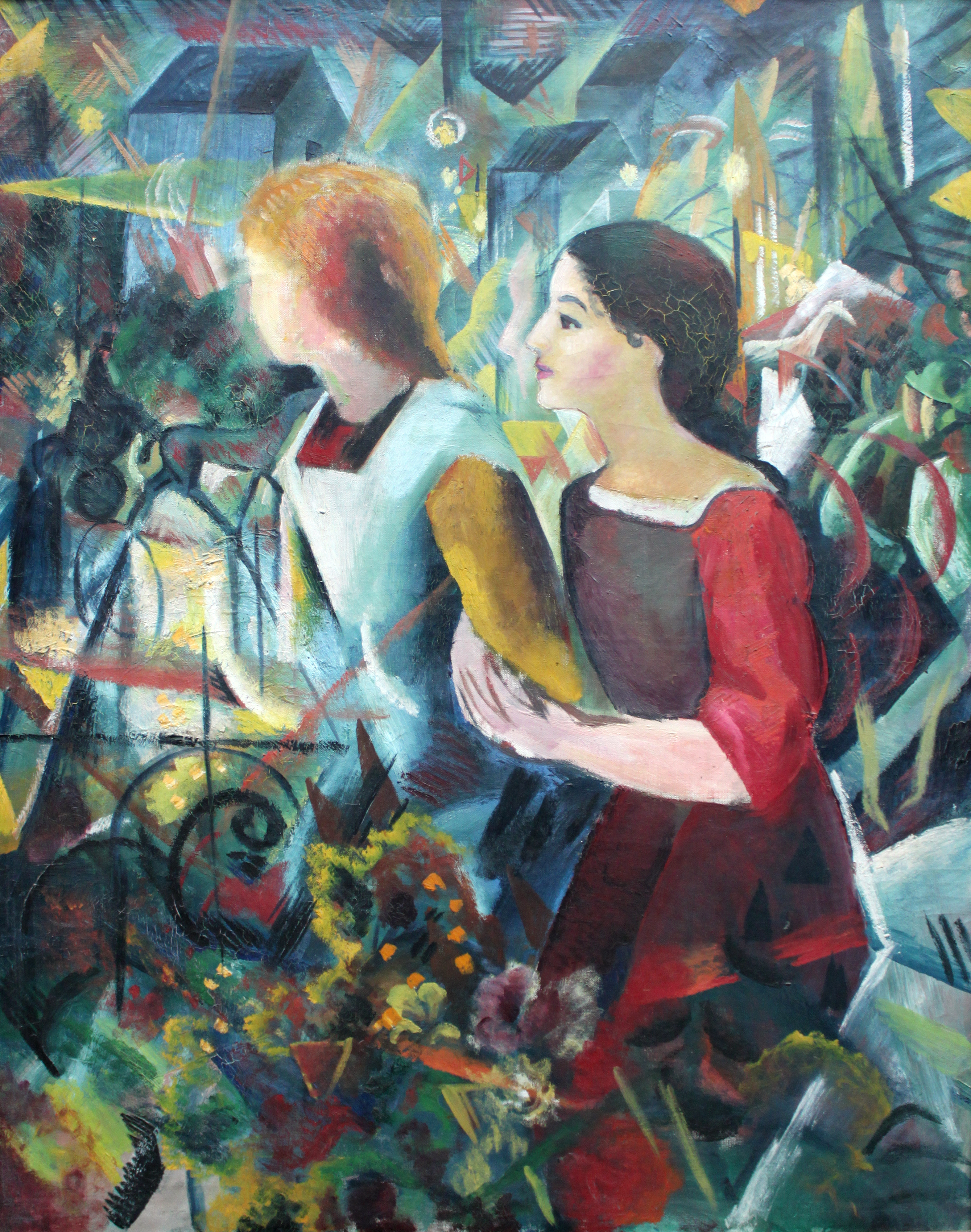 Two Girls